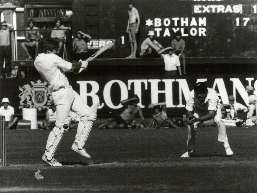 February 1978, Basin Reserve, Wellington AAQT 6539 W3537 box 16 L7/14/6/217 Archives New Zealand